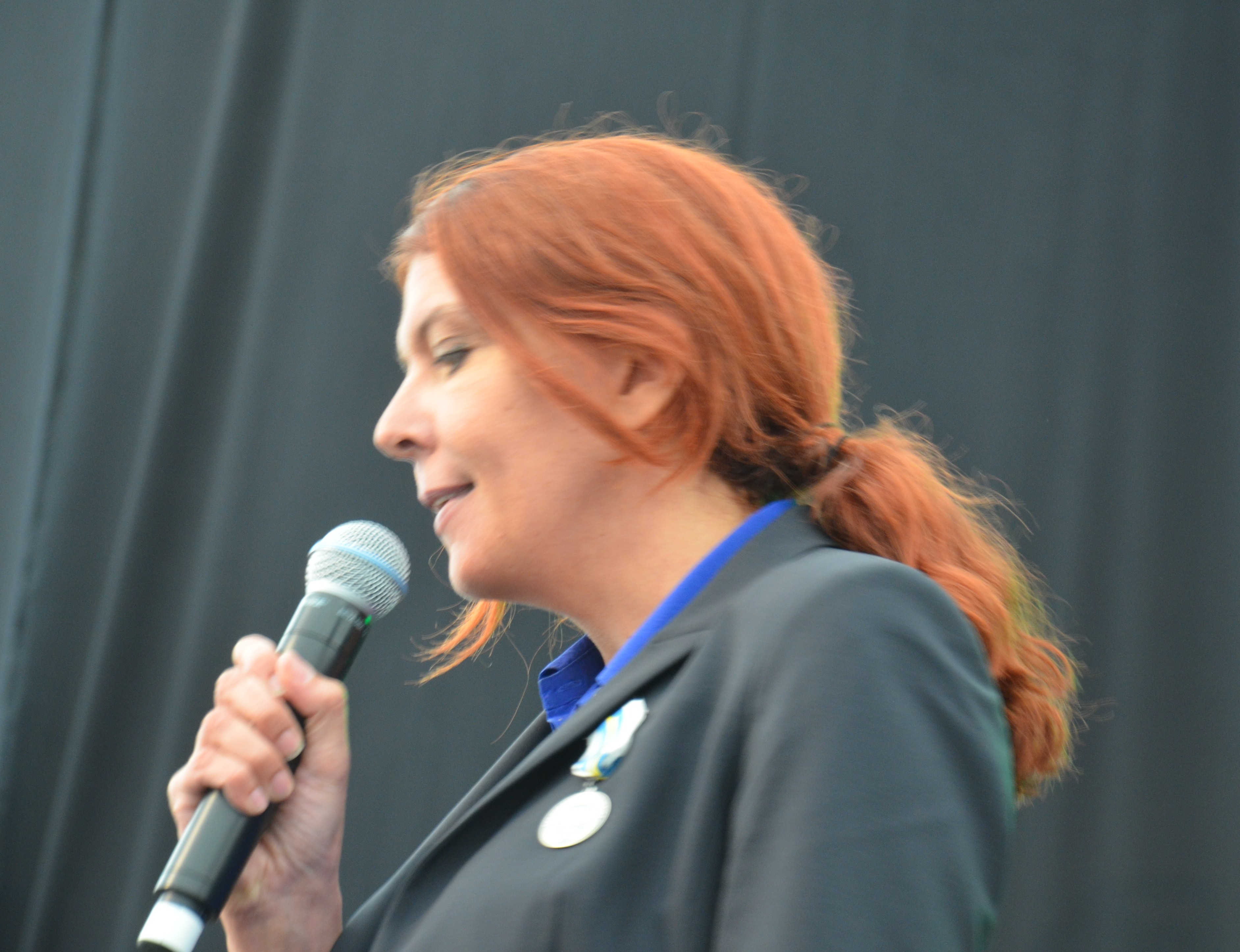 Swedish journalist Johanne Hildebrandt